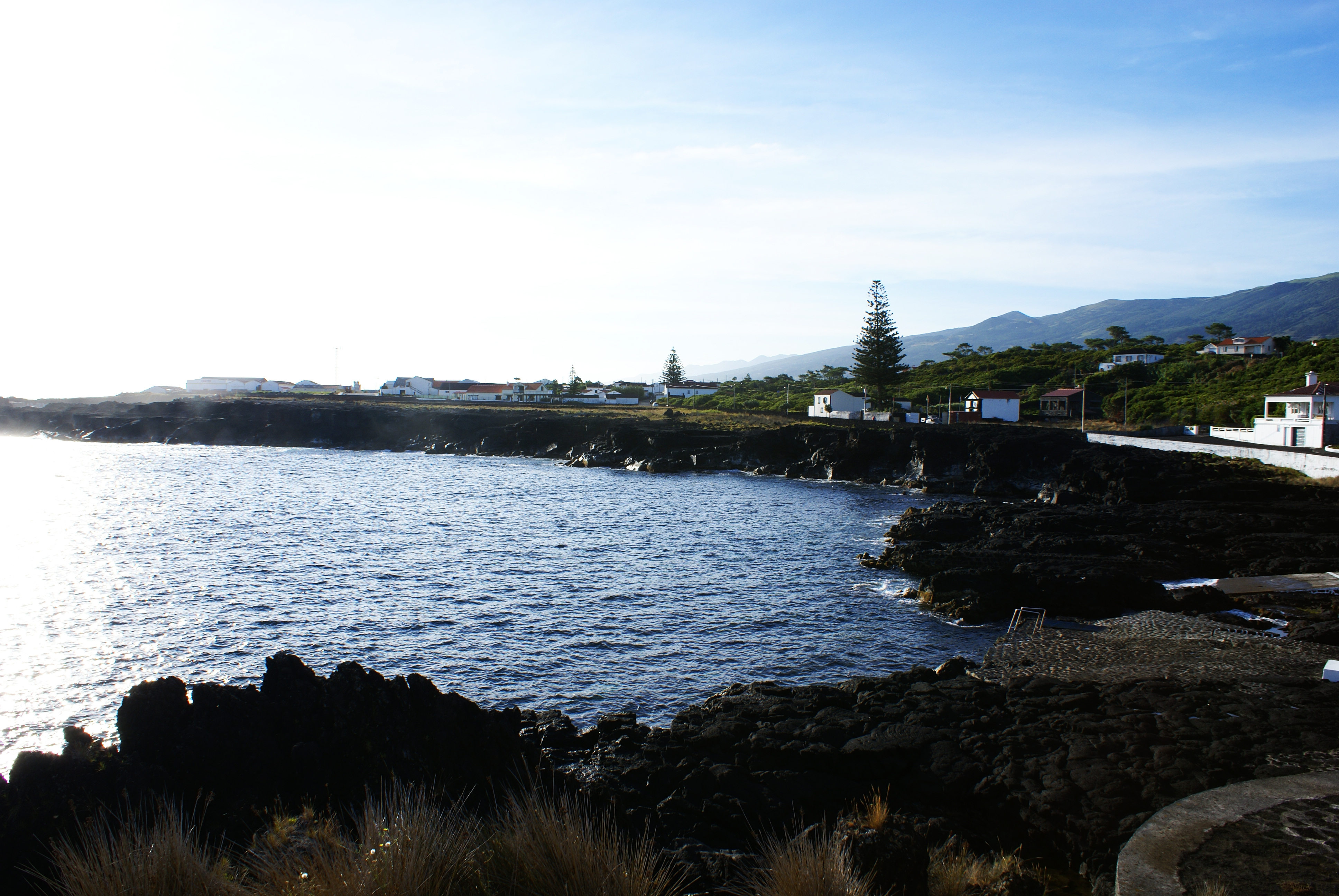 Cais do Pico, Baía, São Roque do Pico, ilha do Pico, Açores, Portugal